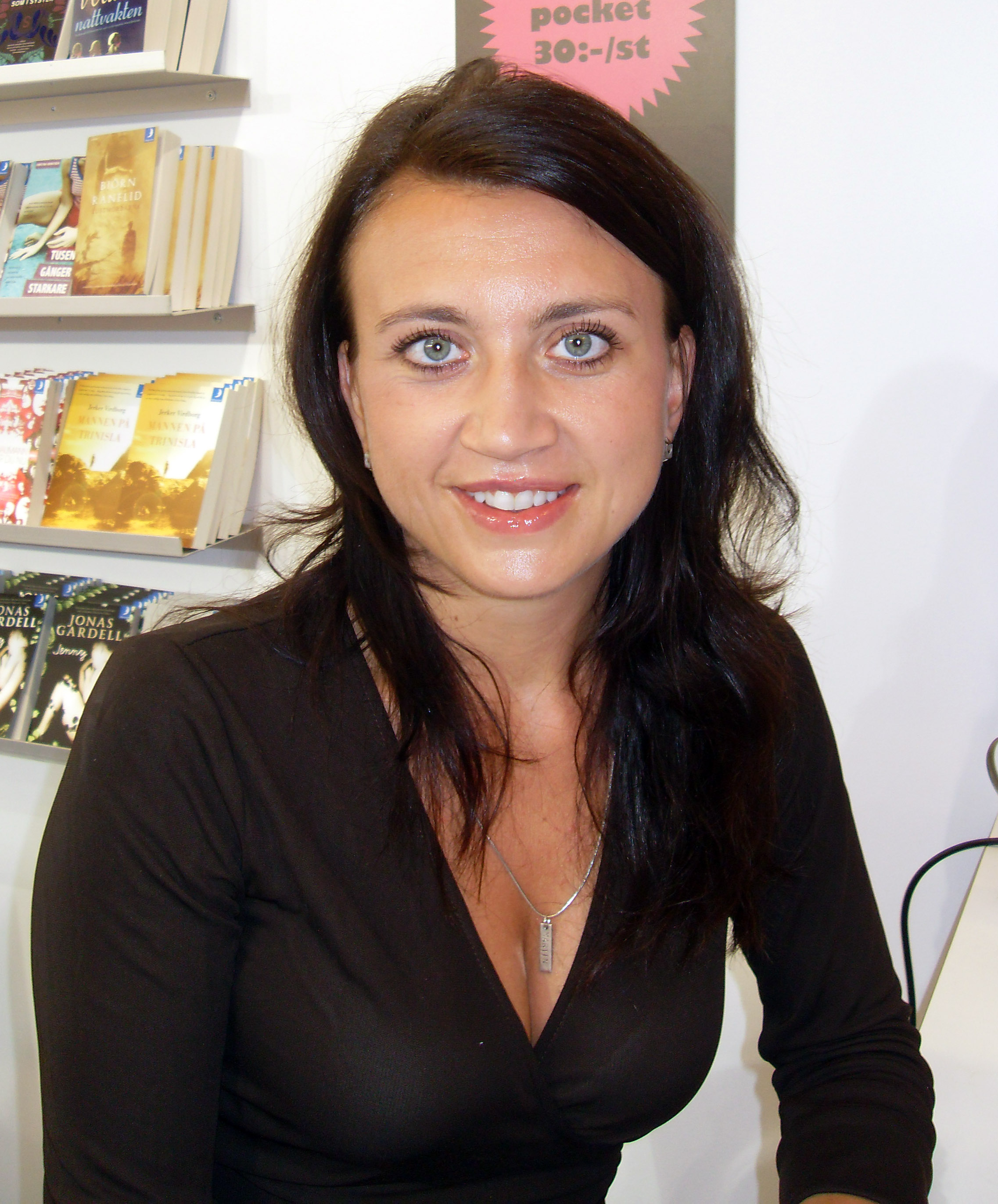 The swedish author Camilla Läckberg at Gothenburg bookfair 2008